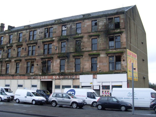 Derelict tenement on Paisley Road West Just beside the entrance to Springfield Quay.